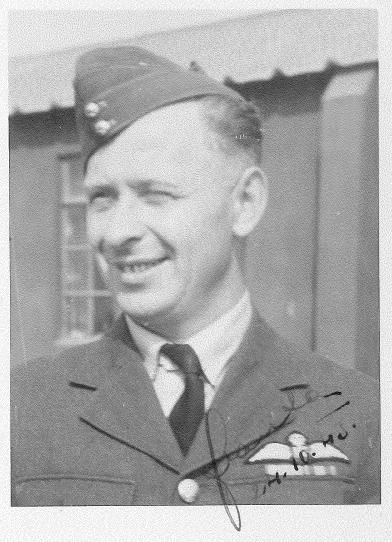 Franišek Taiber as RAF sergeant after Battle of Britain Česky: Franišek Taiber v uniformě četaře RAF po bitvě o Británii